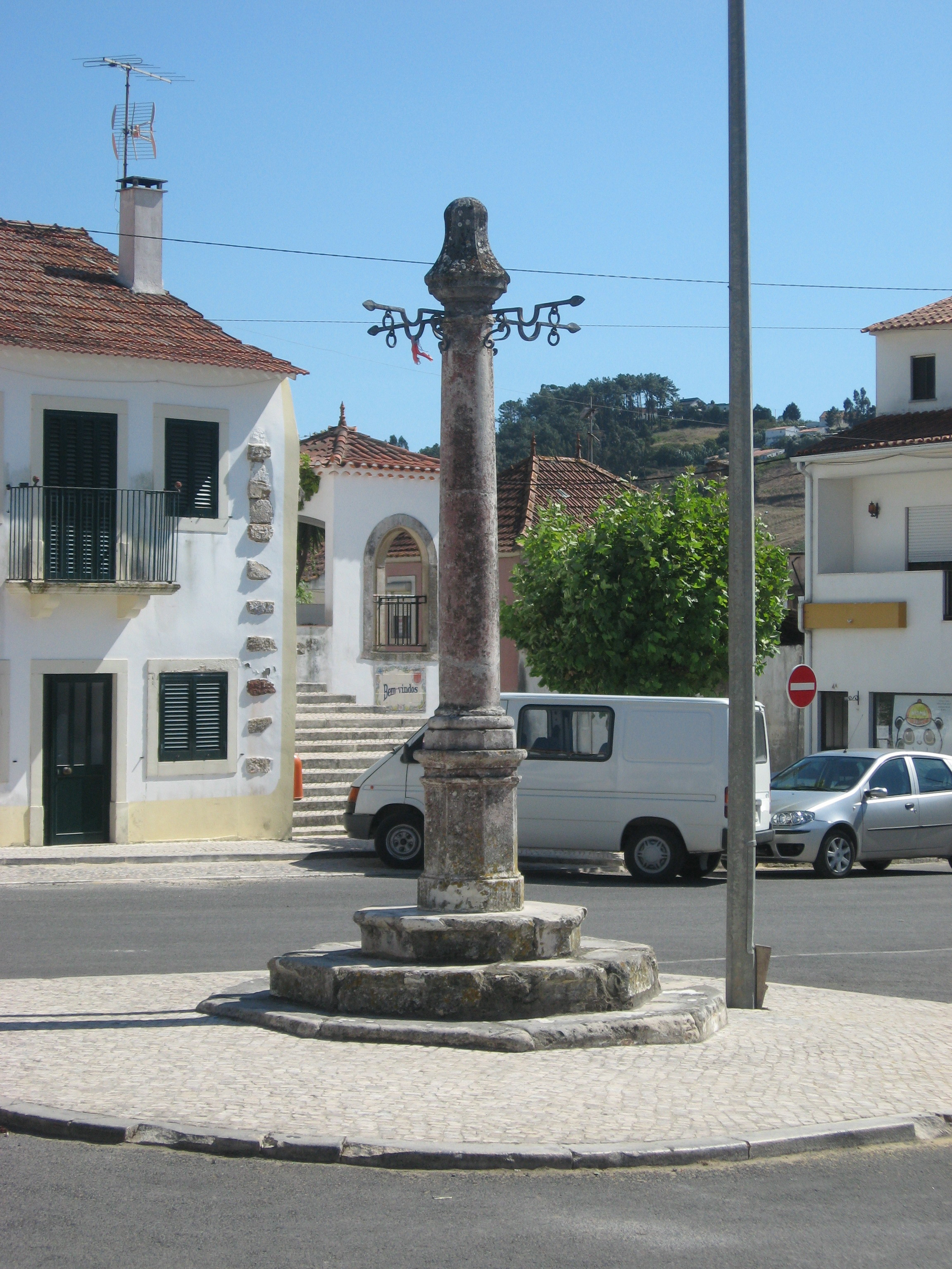 Alcobaça, Portugal Mosteiro, Coutos de Alcobaça, old county of the Abbey, Santa Catarina one of the 13 cities of the, Coutos, Pelourinho (pillory) of 1518, renovated 17th/18th century